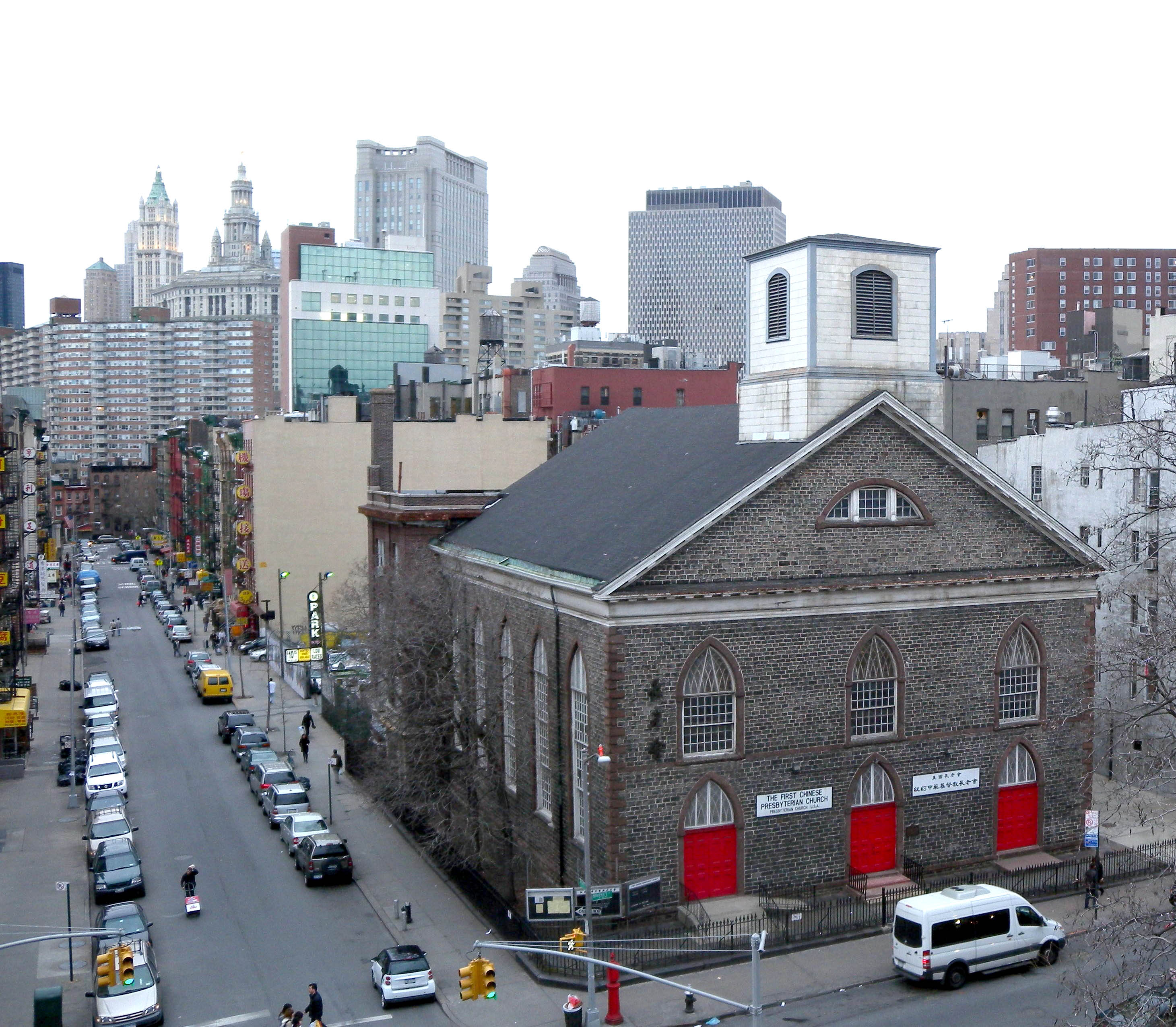 Looking west and down from Manhattan Bridge footpath on the Northern Reformed Church, now First Chinese Presbyterian, on a cloudy late afternoon. NYCLPC designation 1966; Guidebook map 4. See also File:Sea-and-land-church-61-henry.jpg.